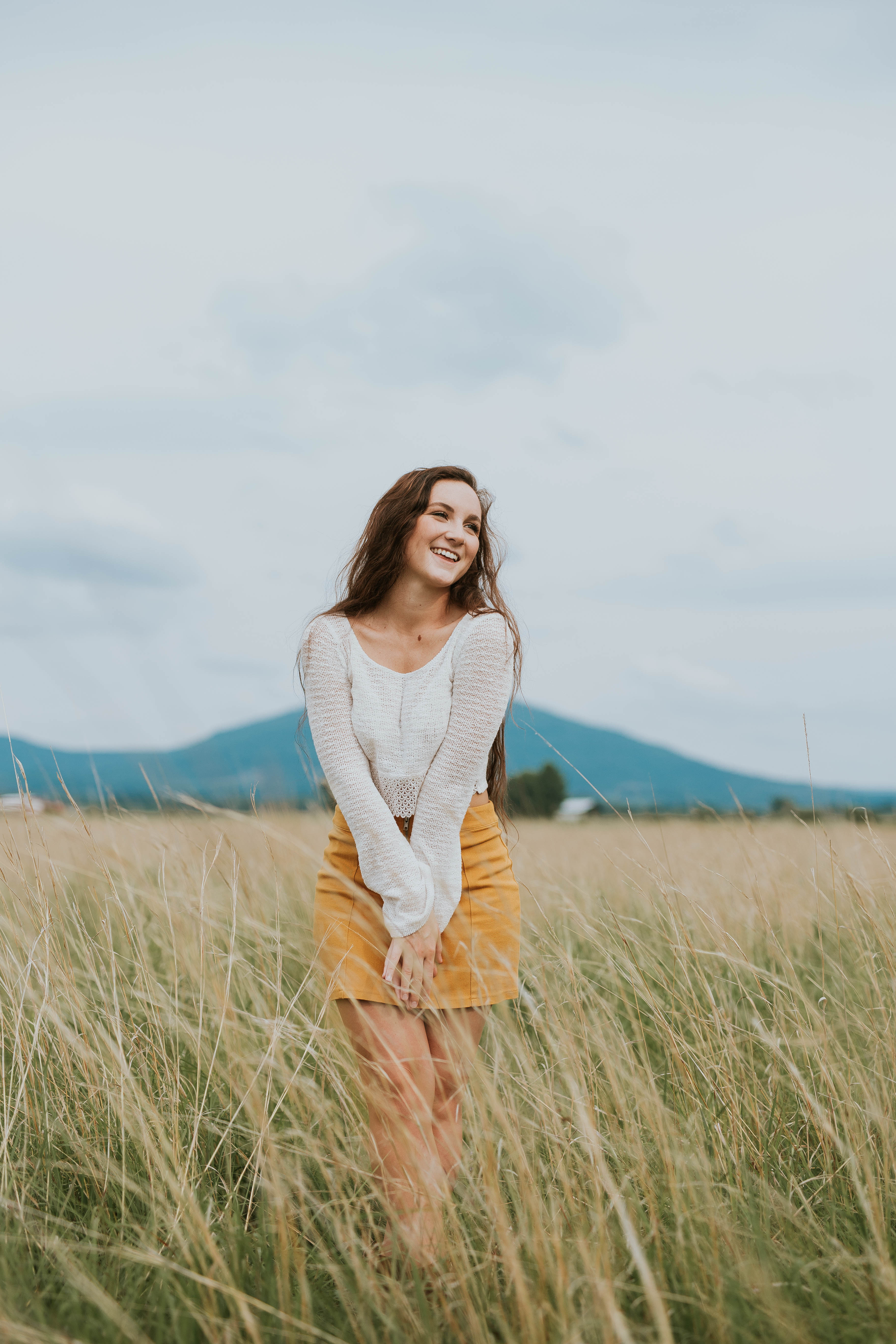 Brooke Cagle 2017-06-01